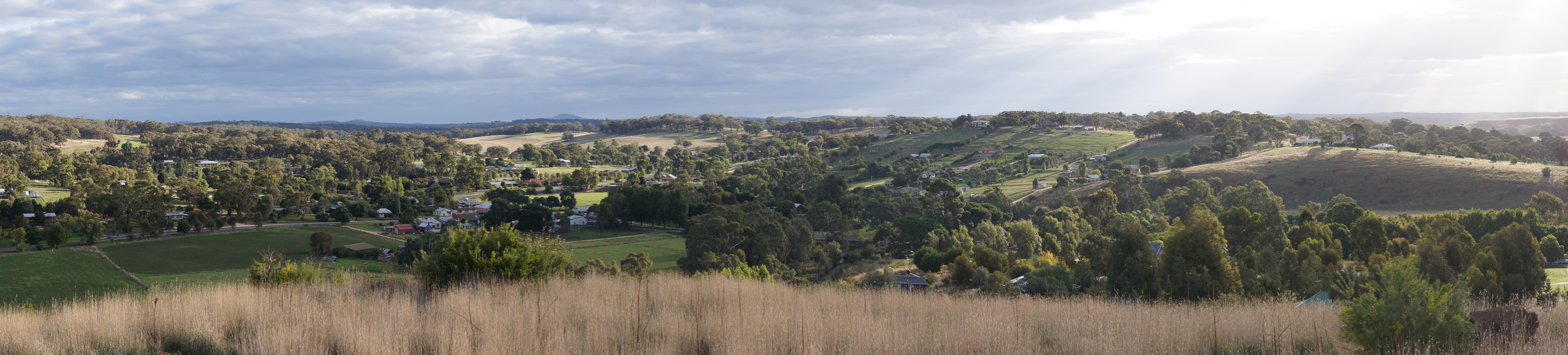 A panorama image of the town 'Guildford'.